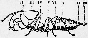 Schizomus crassicaudatus, one of the Pedipalpi. Lateral view of a male. II to VI, the prosomatic appendages, the first being concealed; 5, the fifth, and 11, the eleventh tergites of the opisthosoma; pa, the conical post-anal lobe.(Original drawing by Pickard—Cambridge, directed by Pocock.)